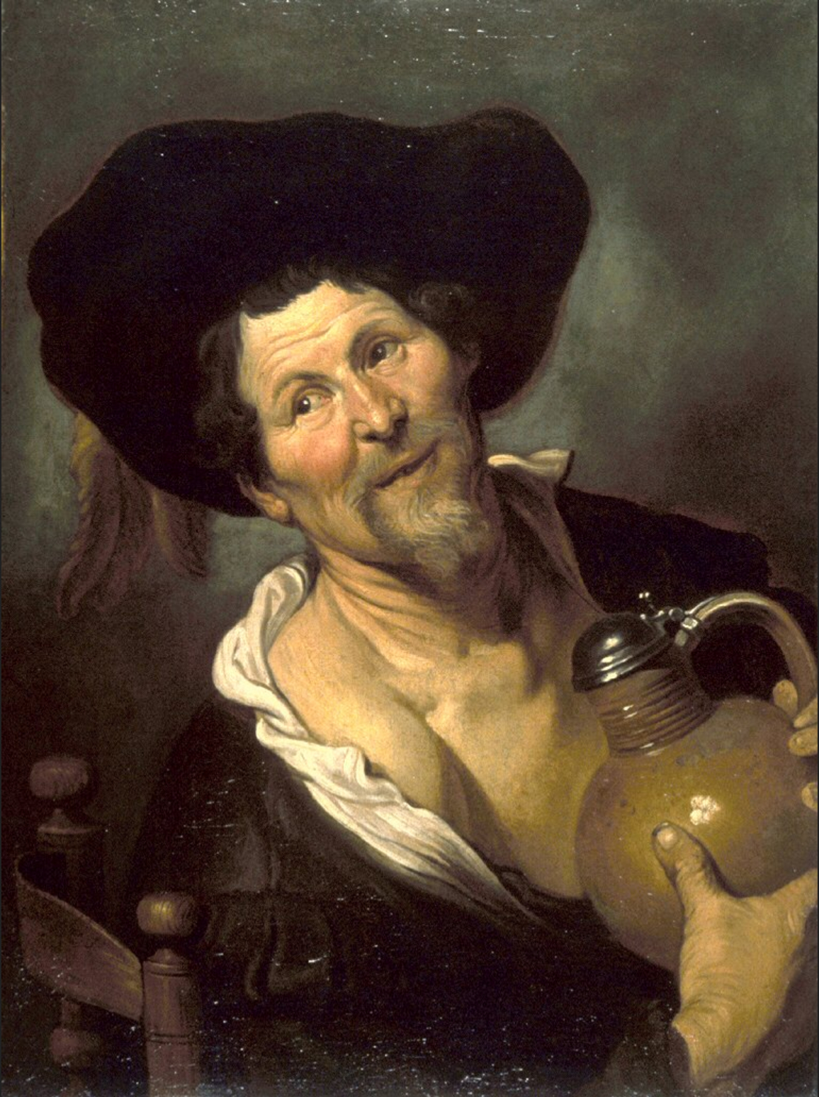 Enjoying his beer, this smiling, disheveled peasant presses his jug to his chest and turns towards an unseen comrade. By organizing the man's gestures around a diagonal, Seghers introduces a sense of ongoing action. The drinker's easy-going air and proximity to the viewer make him seem like an individual with a personal story, not just an amusing type.